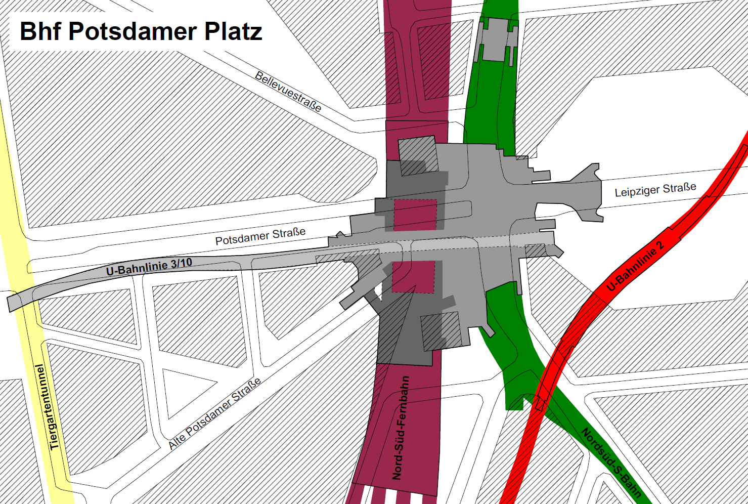 Alignment of non-operating metro line U3/U10 at Potsdamer Platz